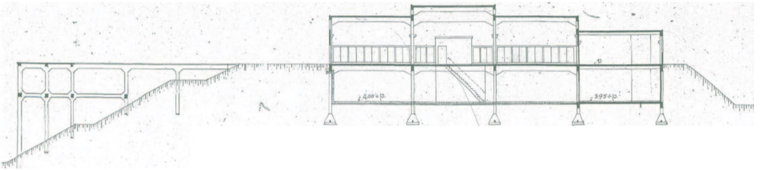 Original construction drawing of the sea mine depot in Veere (erected 1916).